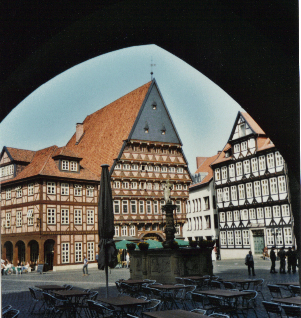 Butchers' Guildhall in Hildesheim